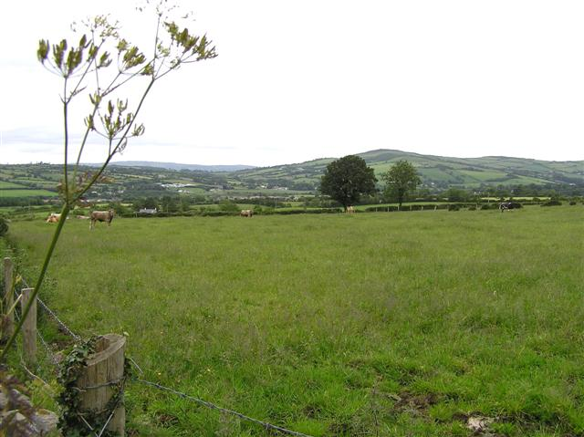 Hunterstown. Looking north past the hemlock.